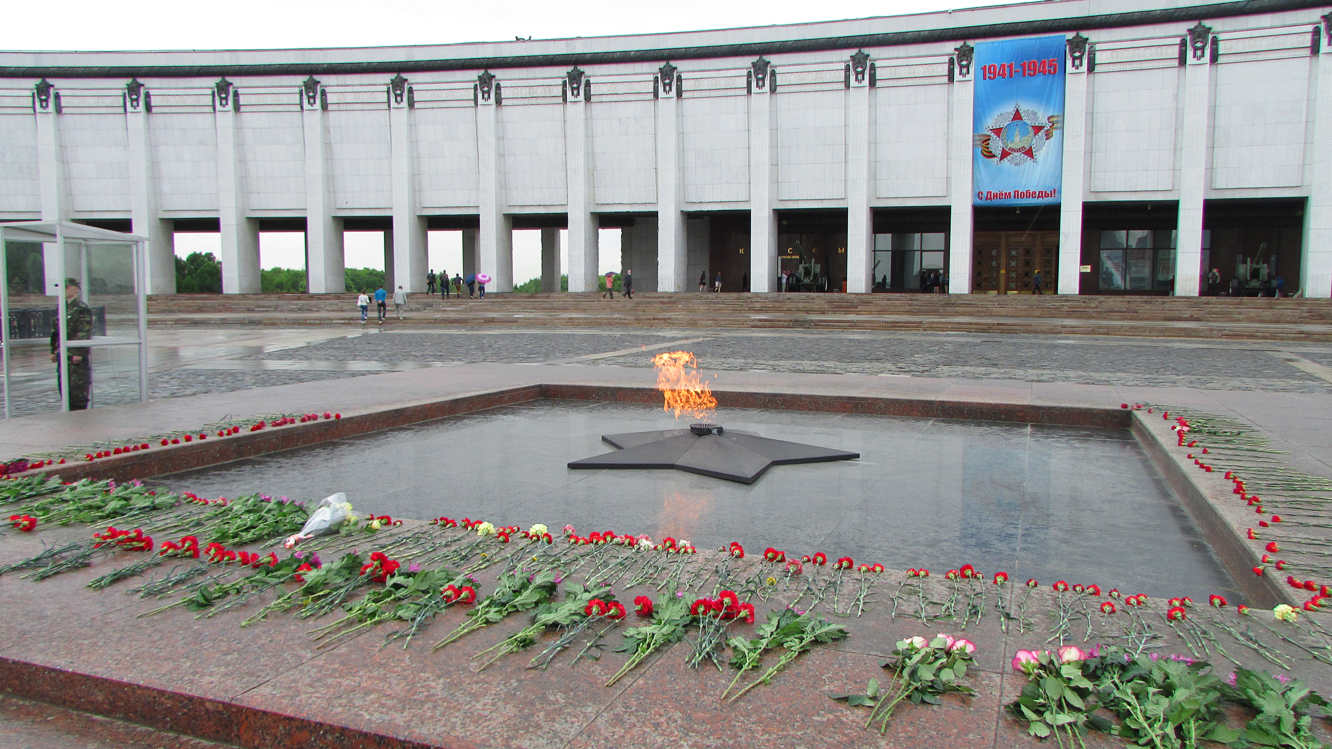 Dorogomilovo District, Moscow, Russia